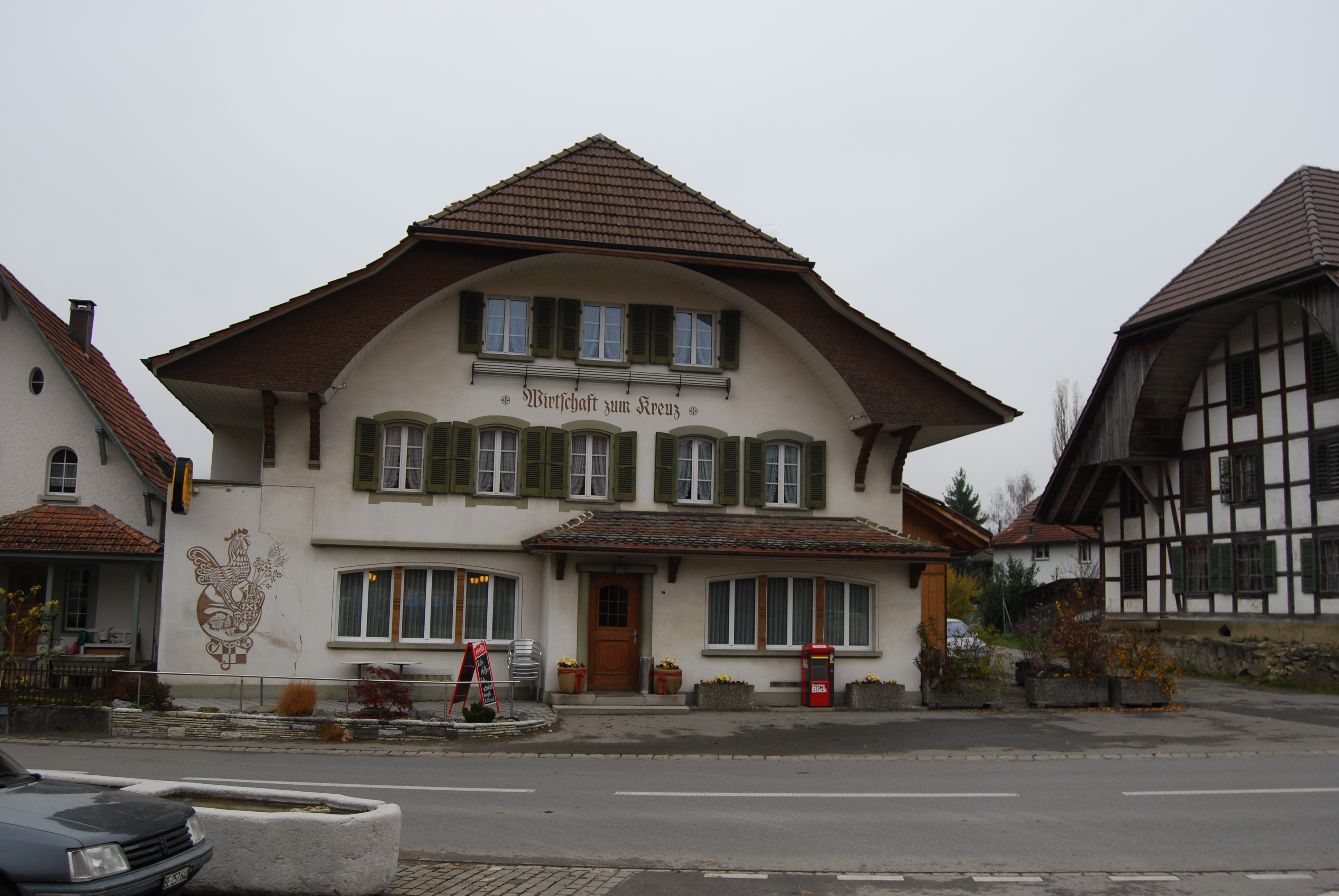 Restaurant zum Kreuz, Limpach, canton of Bern, Switzerland